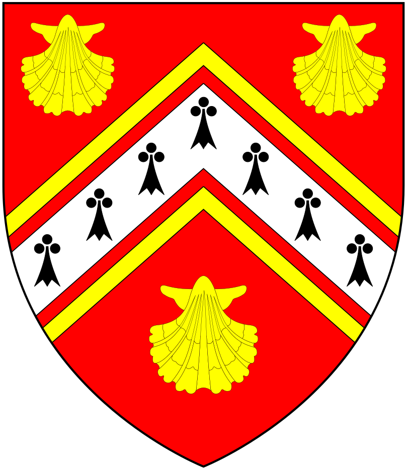 Arms of Browne of Browne (alias Brownishilarshe (Vivian, p.112), (Brown's) Ilash Risdon, Tristram (d.1640), Survey of Devon, 1811 edition, London, 1811, with 1810 Additions, p.271) in the parish of Langtree, Devon: Gules, a chevron ermine between two chevronells and three escallops or (Vivian, Lt.Col. J.L., (Ed.) The Visitations of the County of Devon: Comprising the Heralds' Visitations of 1531, 1564 & 1620, Exeter, 1895, p.112)